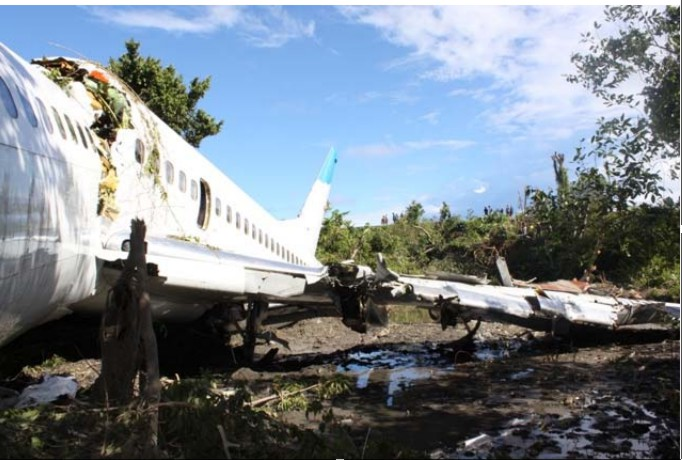 Merpati Boeing 737 crash in Manokwari